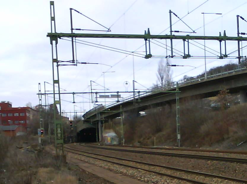 Gårdatunneln, a railway tunnel in Gothenburg, Sweden